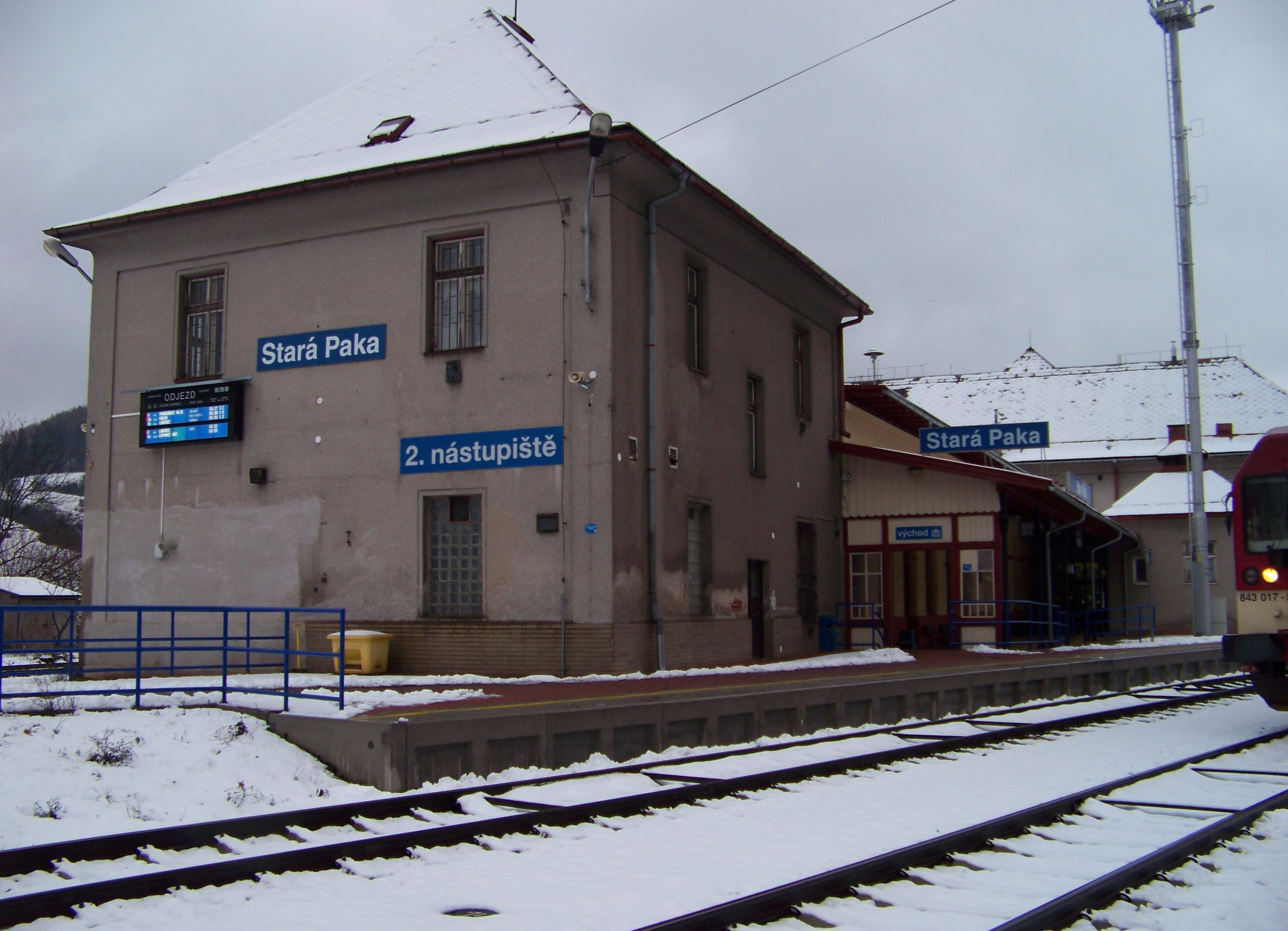 Stará Paka, Jičín District, Hradec Králové Region, Czech Republic. Train station Stará Paka.